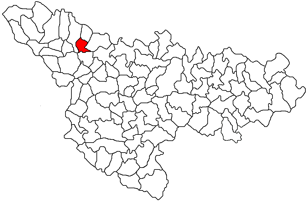 Locator map of the commune of Pesac, Timiș County, Romania